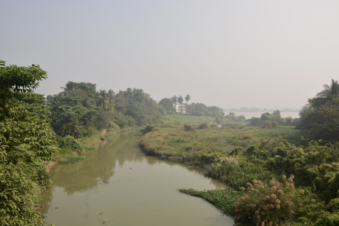 The mouth of Saraswati River near Tribeni in Hooghly district of West Bengal with River Bhagirathi or River Hooghly is seen on the background.